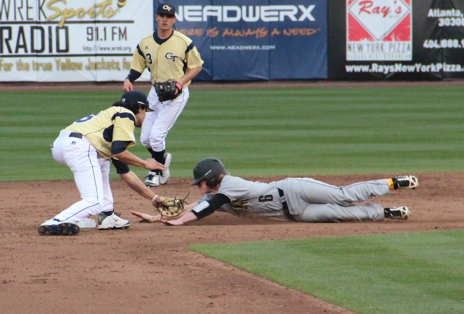 Georgia Tech vs Kennesaw State baseball, February 25, 2014